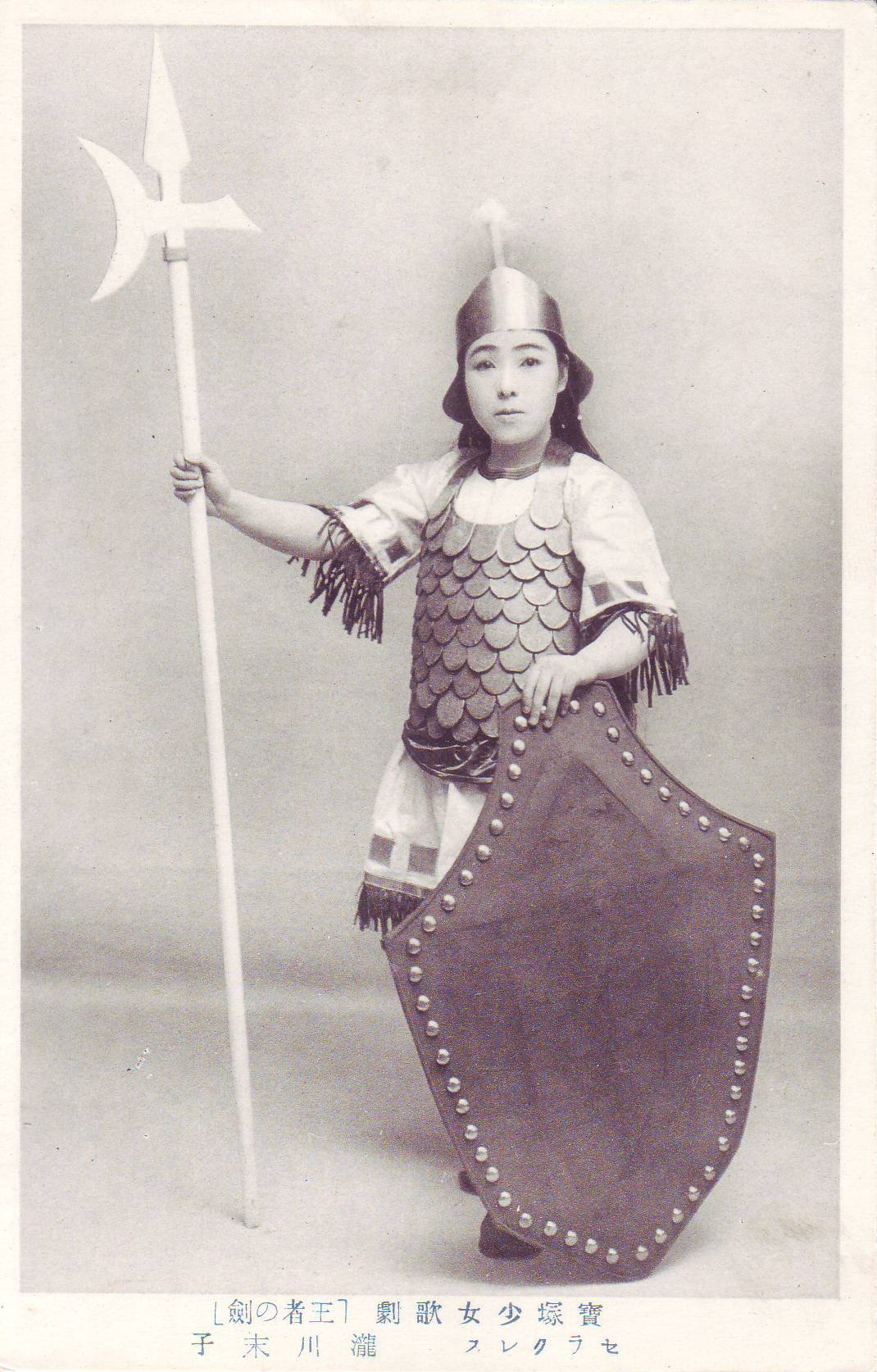 Postcard of Sueko Takigawa (Takarazuka Revue. 1901 - Year of death unknown).